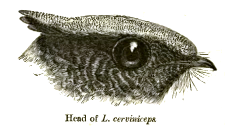 Head of Eurostopodus, Great Eared Nightjar (Eurostopodus macrotis)